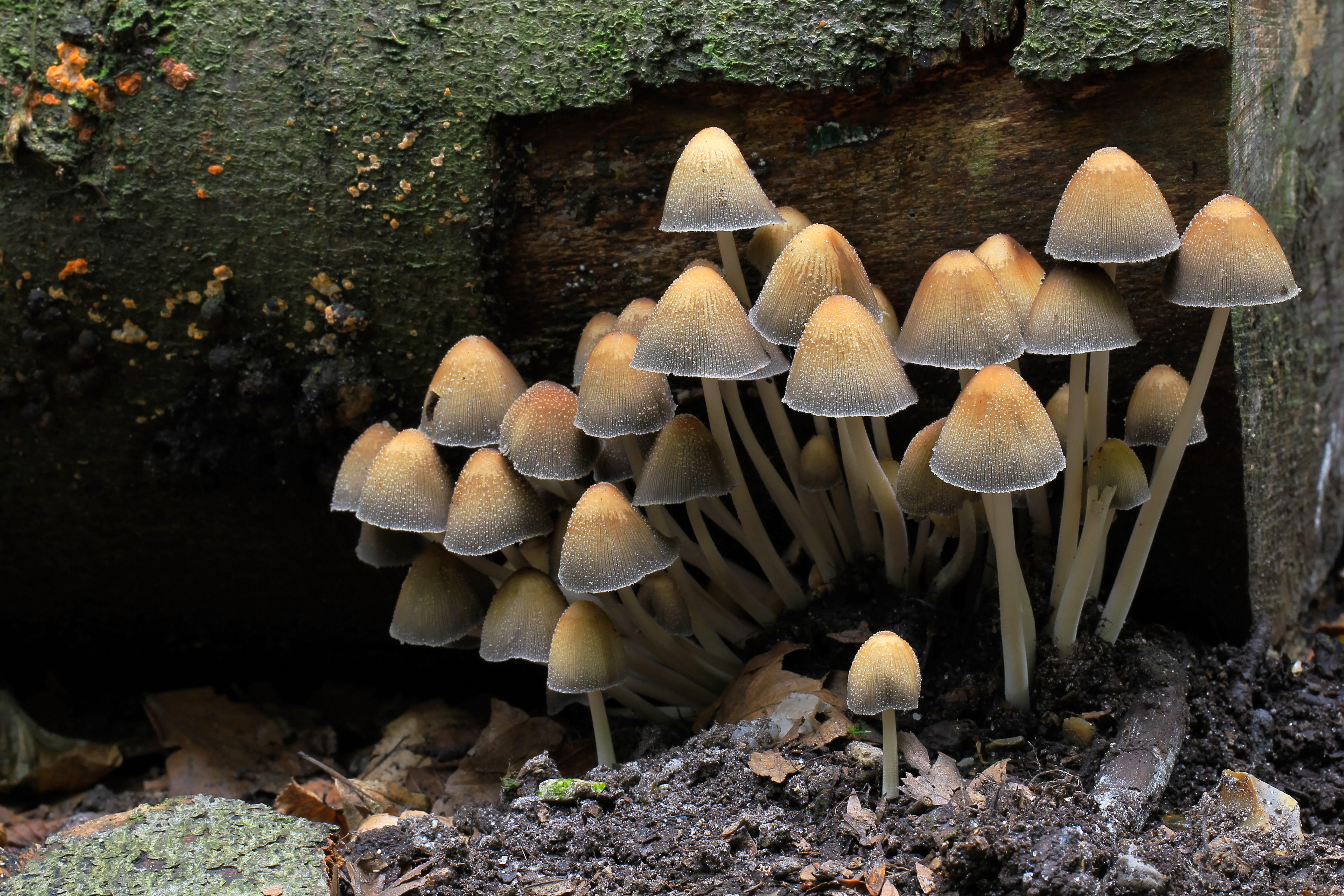 Coprinellus micaceus (syn. Coprinus micaceus), Mica or Glistening Inkcap, taken in London, UK